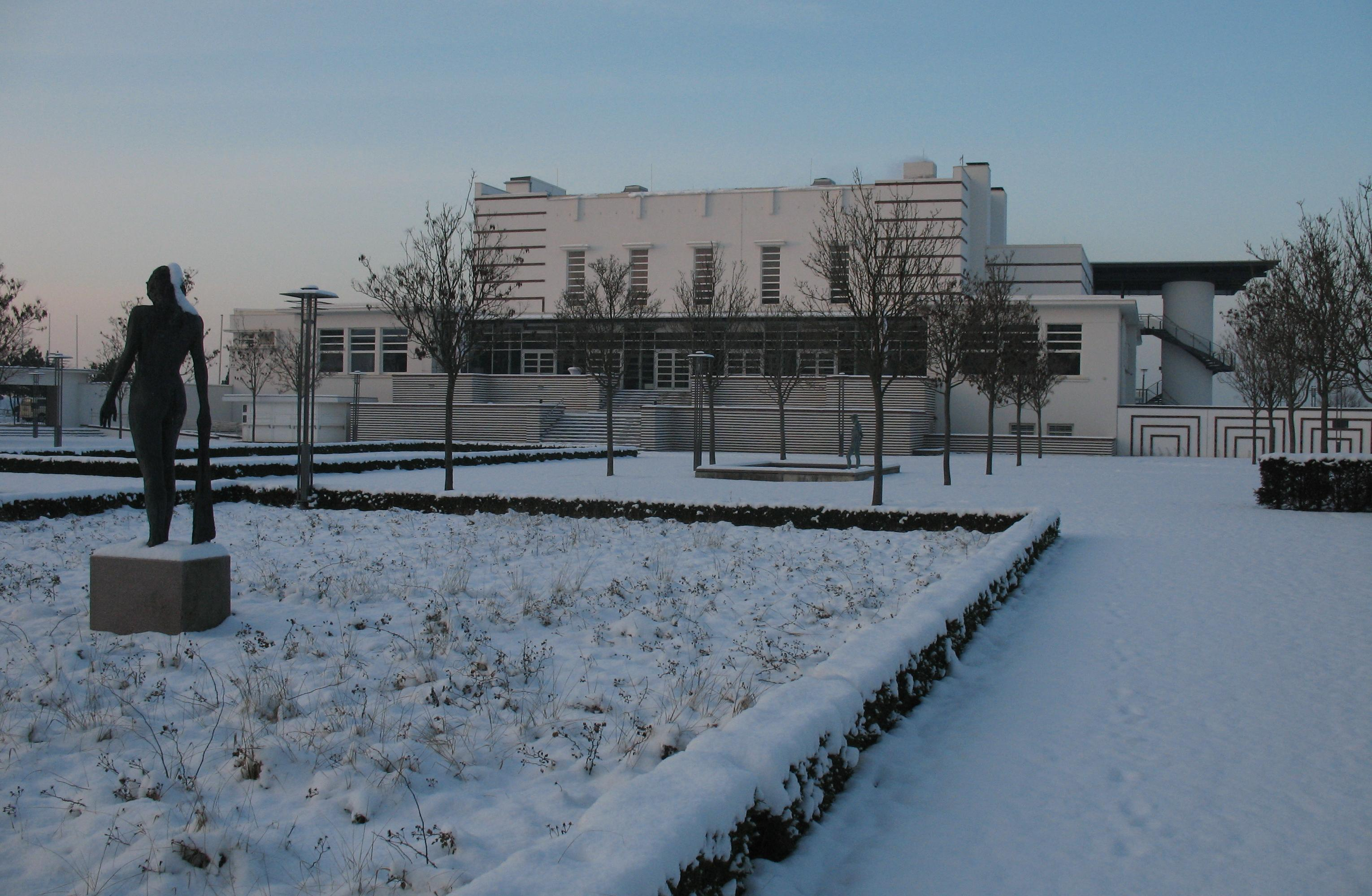 "Kurhaus" (Spa House) in Warnemünde in Mecklenburg-Western Pomerania, Germany